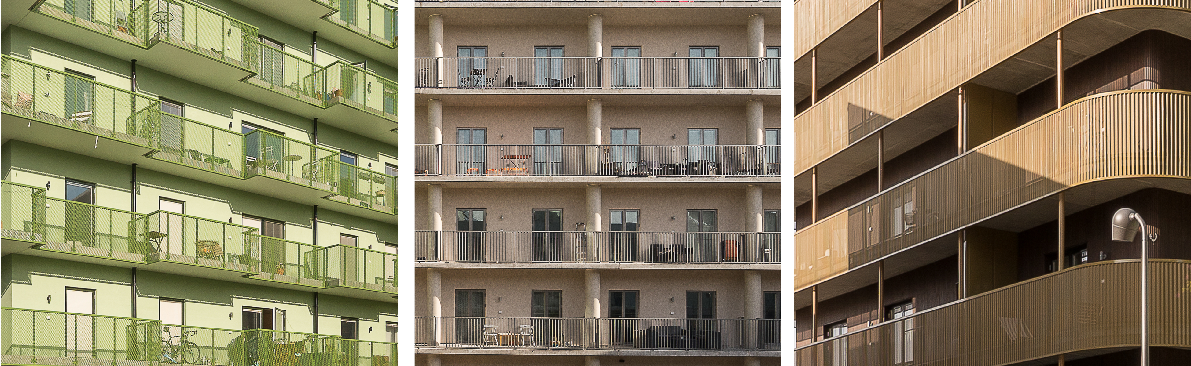 Stora Sjöfallet 3 is part of the city block Stora Sjöfallet in Norra Djurgårdsstaden, Stockholm. Sjöfallet 3 consists of three apartment buildings, built in 2016. Architects: Vera Arkitekter.